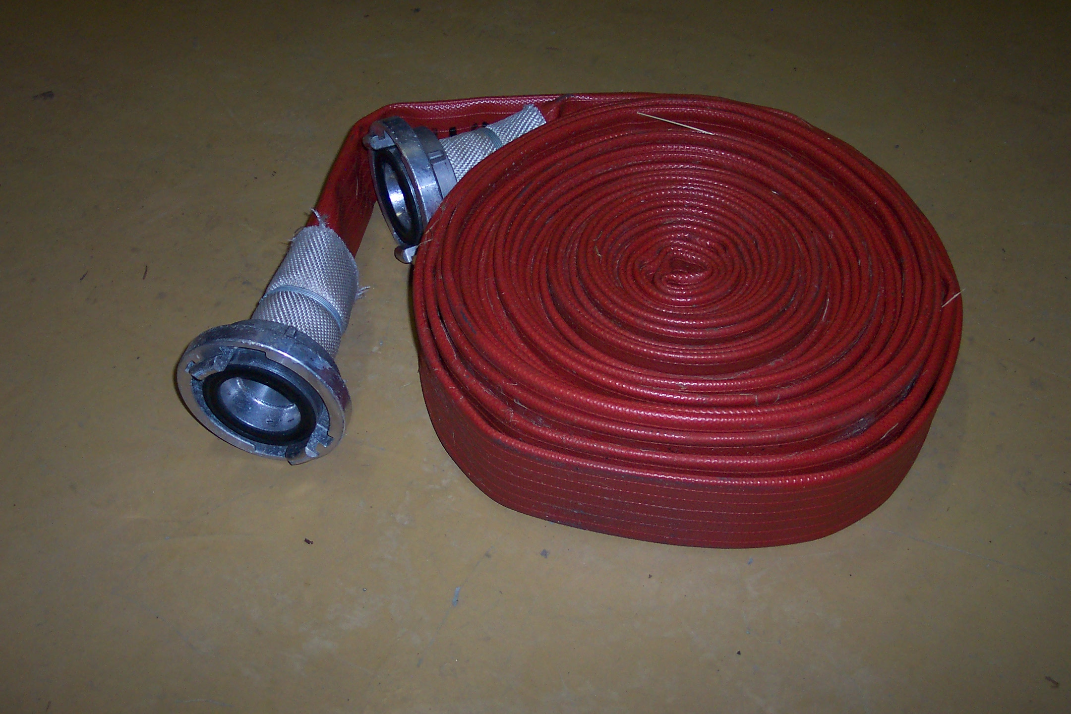 A 75 mm firehose with Storz-couplings